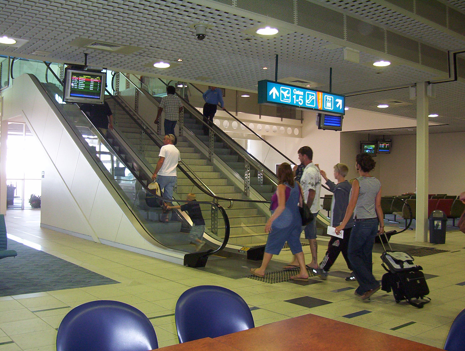 Inside the Townsville Airport Departures/Arrivals Lounge, with the Escalators heading up to gates 1-5 on the Concourse.